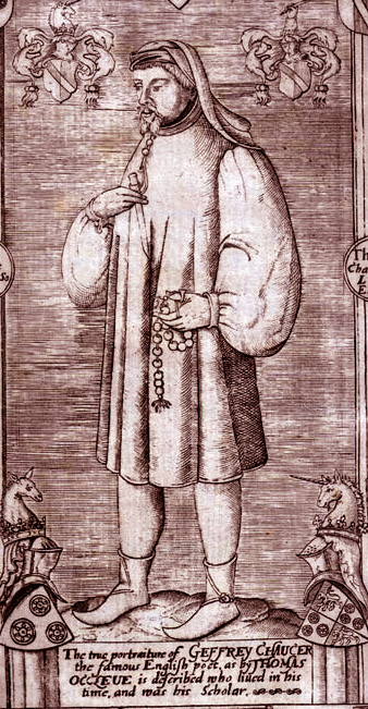 Image of Geoffrey Chaucer from Speght's edition of 1602. Top right and top left: Arms of Chaucer (version 1): Per pale argent and gules, a bend counterchanged; Bottom left: arms of Roet (Gules, three Catherine Wheels or); Bottom right: Roet quartering Chaucer (version 2): (Argent, a chief gules overall a lion rampant double queued or, as quartered by de la Pole, Duke of Suffolk), with crest of Chaucer above: A unicorn's head